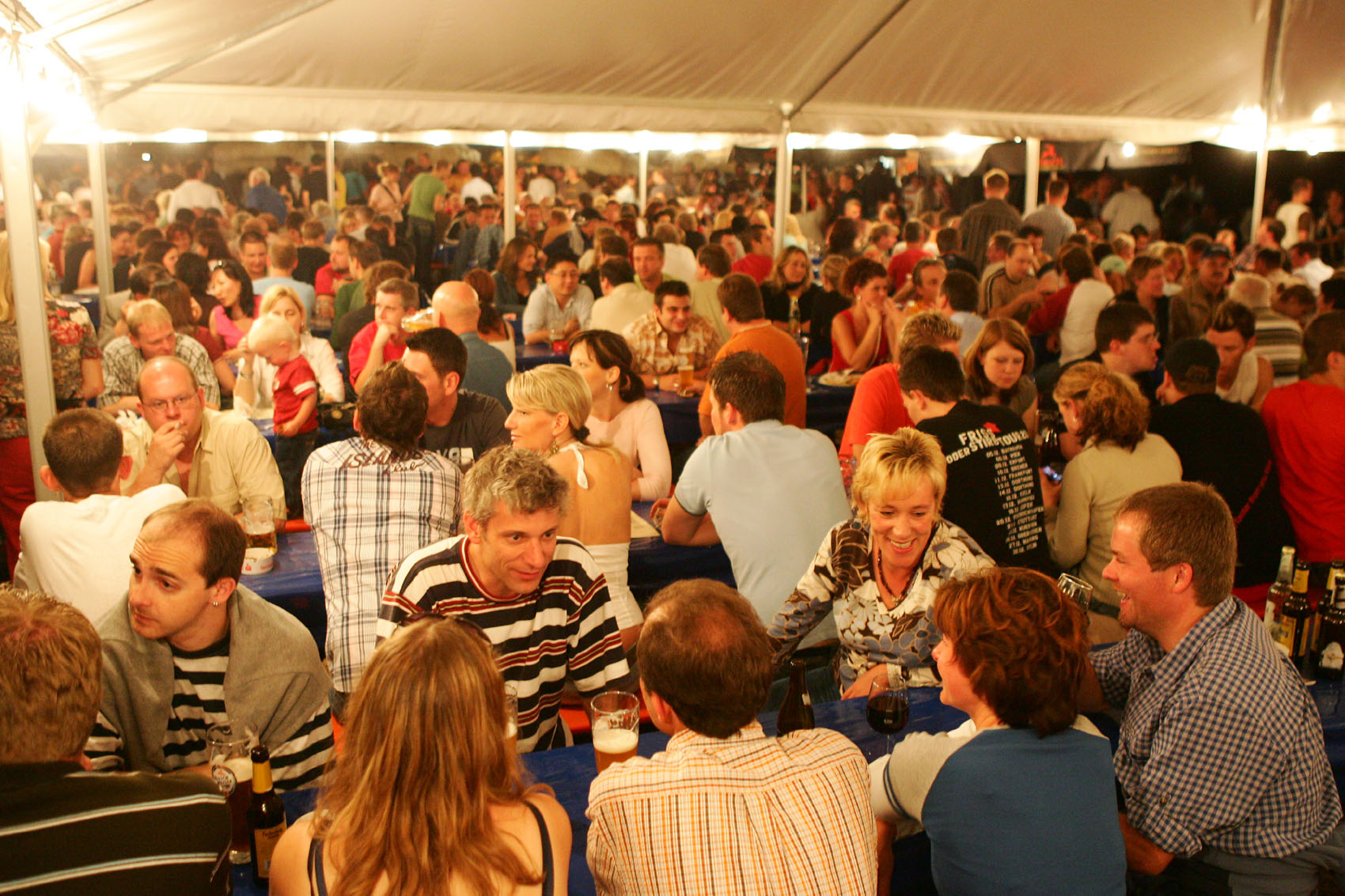 Biergarten